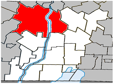 Location of Saint-Jean-sur-Richelieu, Quebec within Le Haut-Richelieu Regional County Municipality.